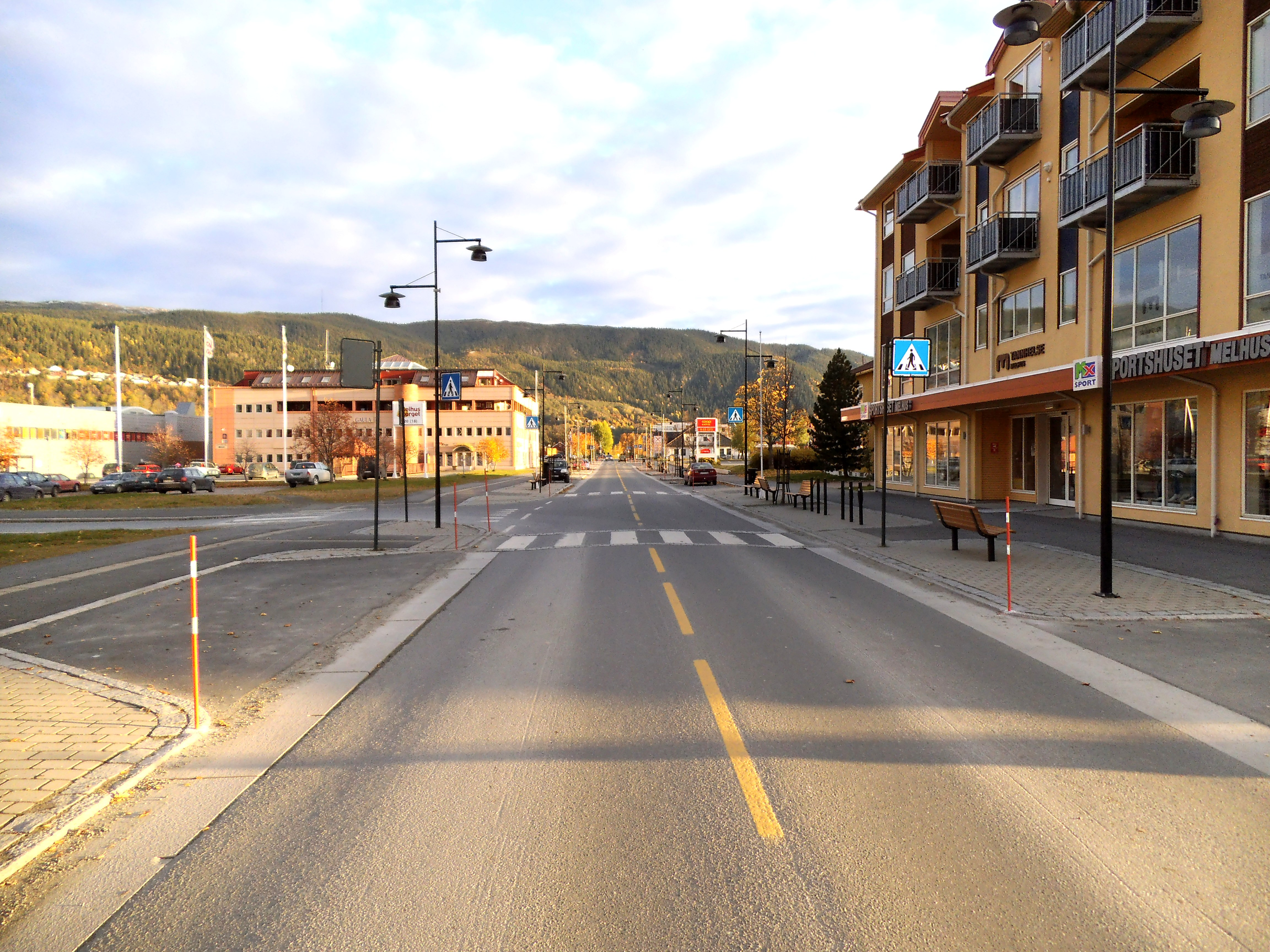 Main street in Melhus